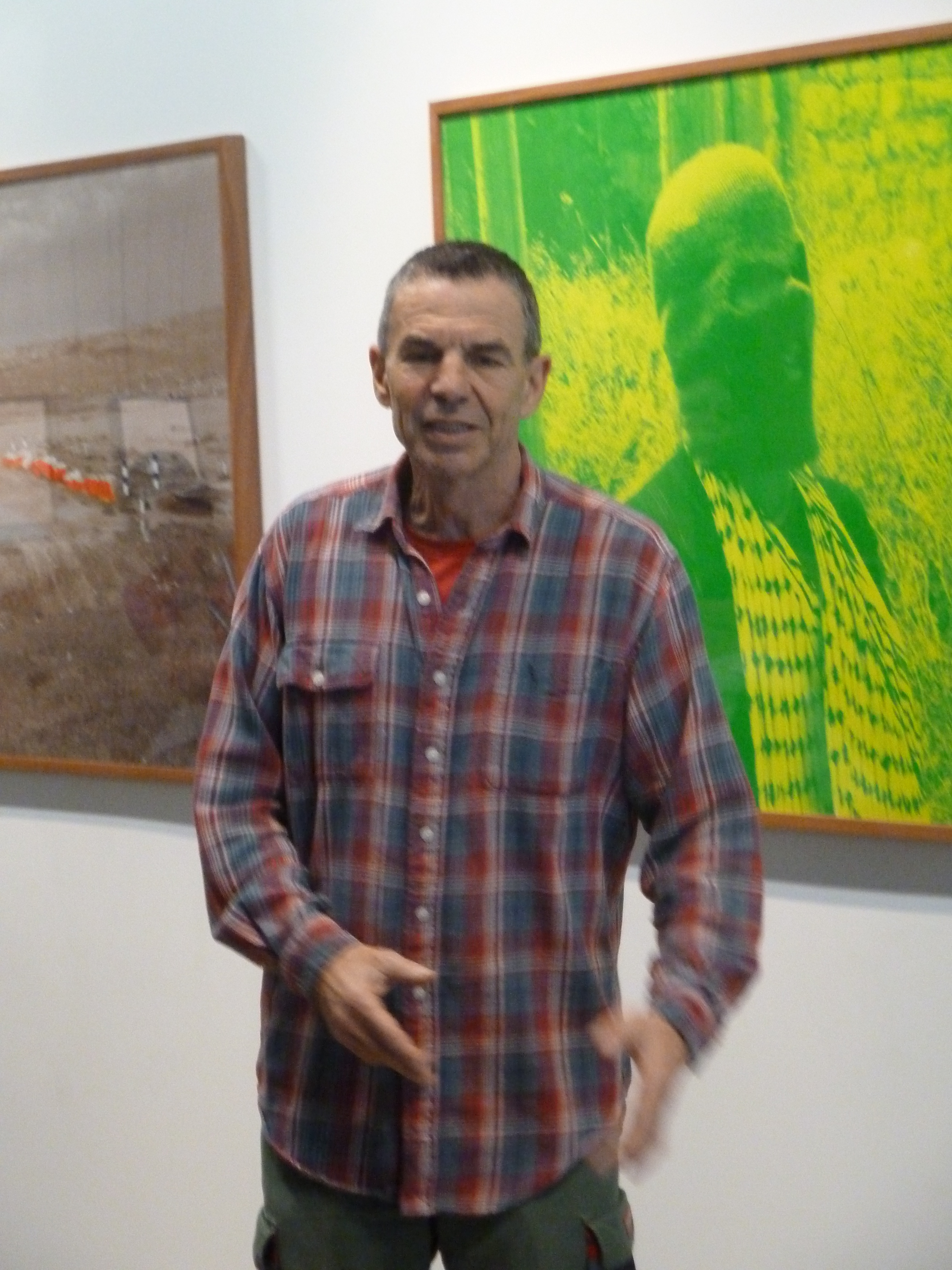 Oded Yeda'ya